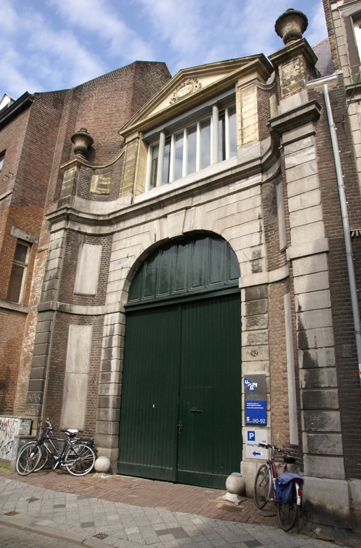 National monument no. 27017 - Hof van Tilly - Grote Gracht 90-92, Maastricht, The Netherlands